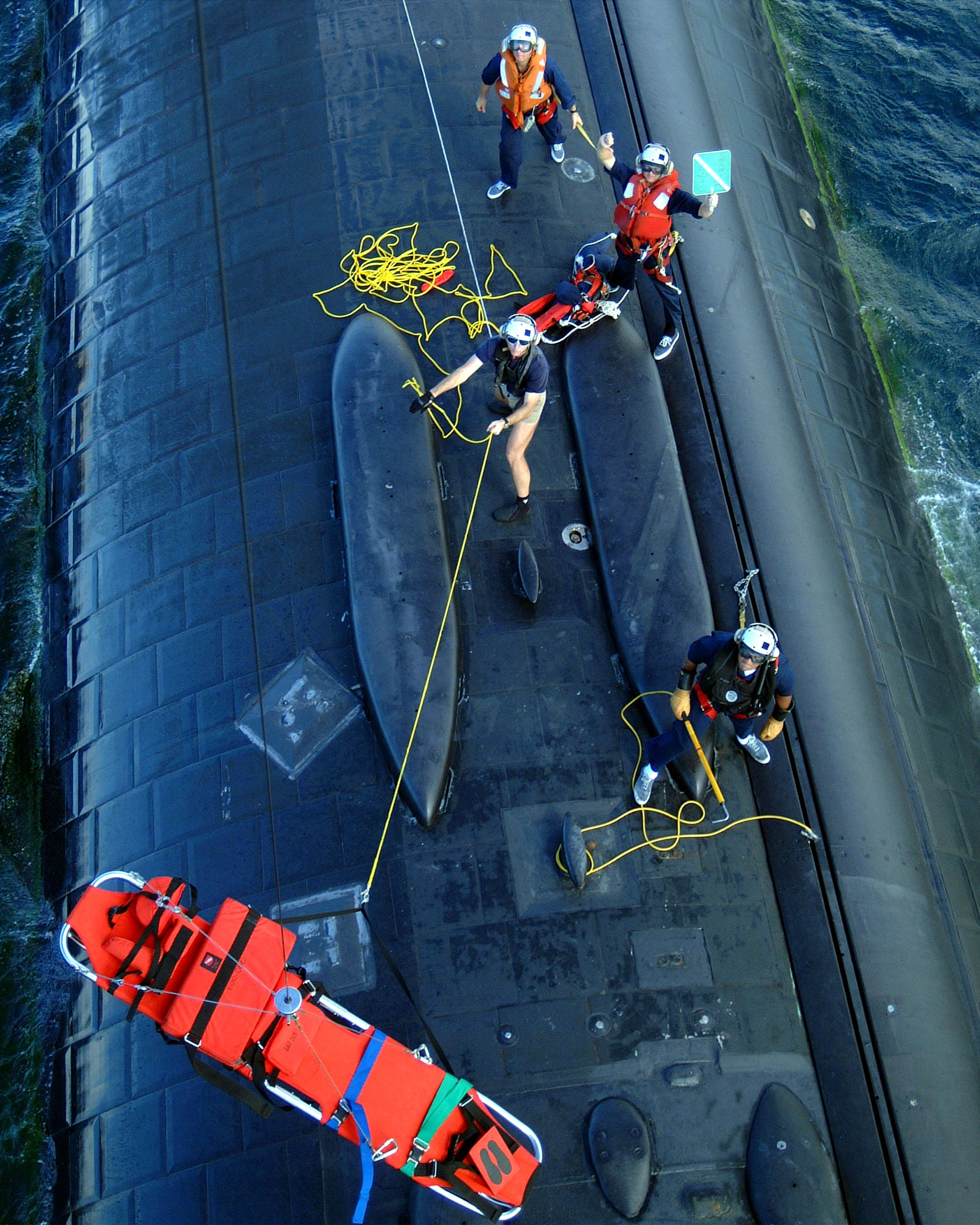 Apra Harbor, Guam (Nov. 7, 2001) -- Crew members aboard a U.S. Navy submarine, conduct an Emergency Personnel Transfer Hoist training exercise with a CH-46 "Sea Knight" helicopter from Helicopter Combat Support Squadron Five (HC-5). U.S. Navy Photo by Photographer's Mate 2nd Class Marjorie McNamee. (RELEASED)